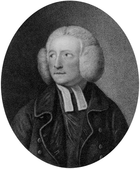 Portrait of Sneyd Davies (1709–1769), English poet.